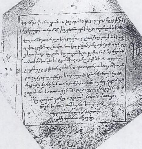 An Armenian poem by Sayat-Nova written in alternate Georgian and Armenian scripts.